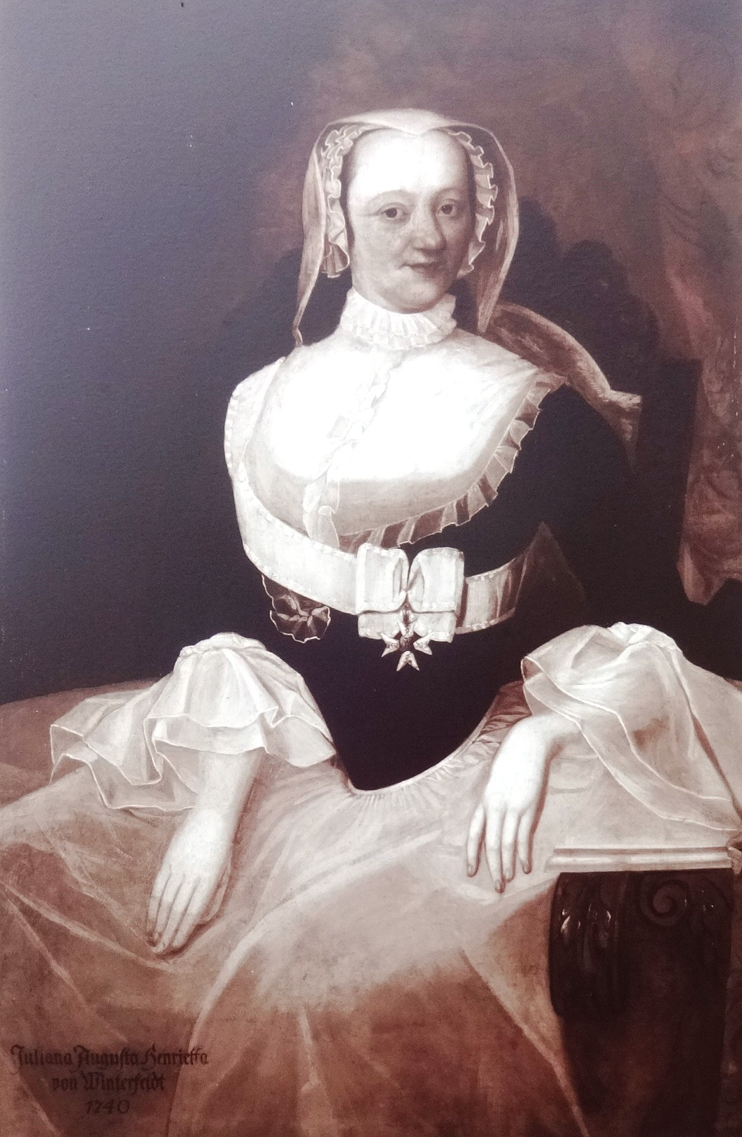 Portrait of Juliane Auguste Henriette von Winterfeldt (1710-1790)